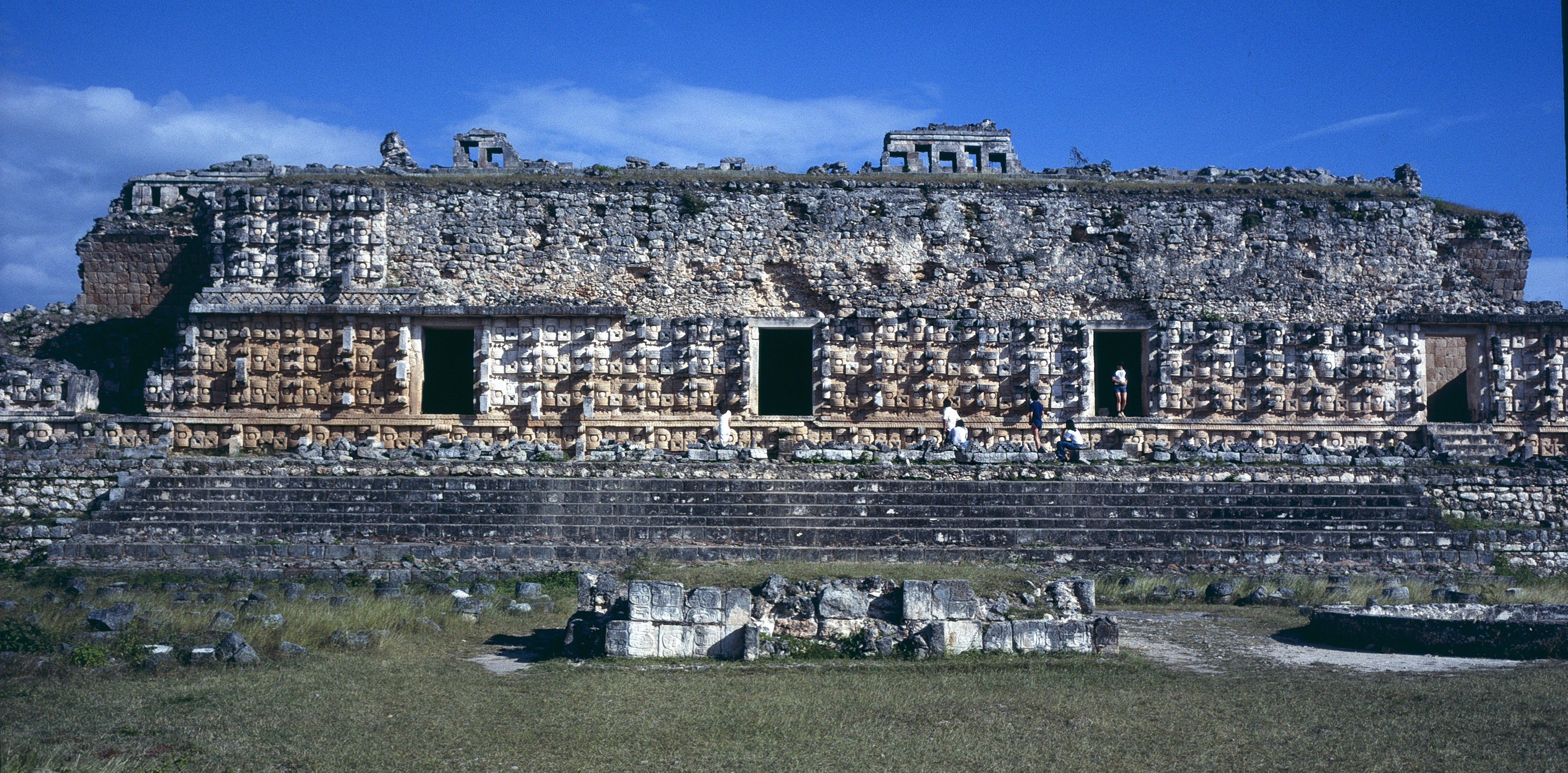 Kabah, Yucatan, Mexico: Codz Pop west side.